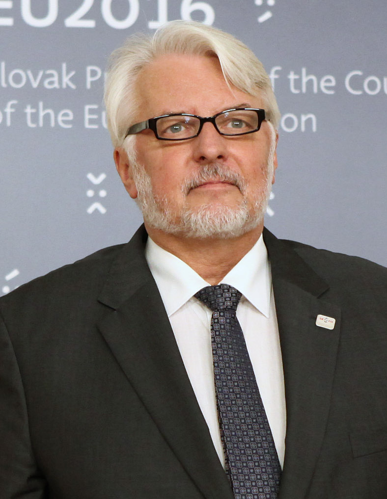 Mrs. Federica Mogherini, European external Action Service, High Representative of the Union for Foreign Affairs and Security Policy/Vice- President of the Commission (L), Poland, Mr. Witold Waszczykowski , Minister of foreign Affairs (C), Slovakia, Mr.Miroslav Lajcak, Minister of foreign and European Affairs (R) Informal Meeting of foreign Affairs Ministers (Gymnich) Photo: Andrej Klizan